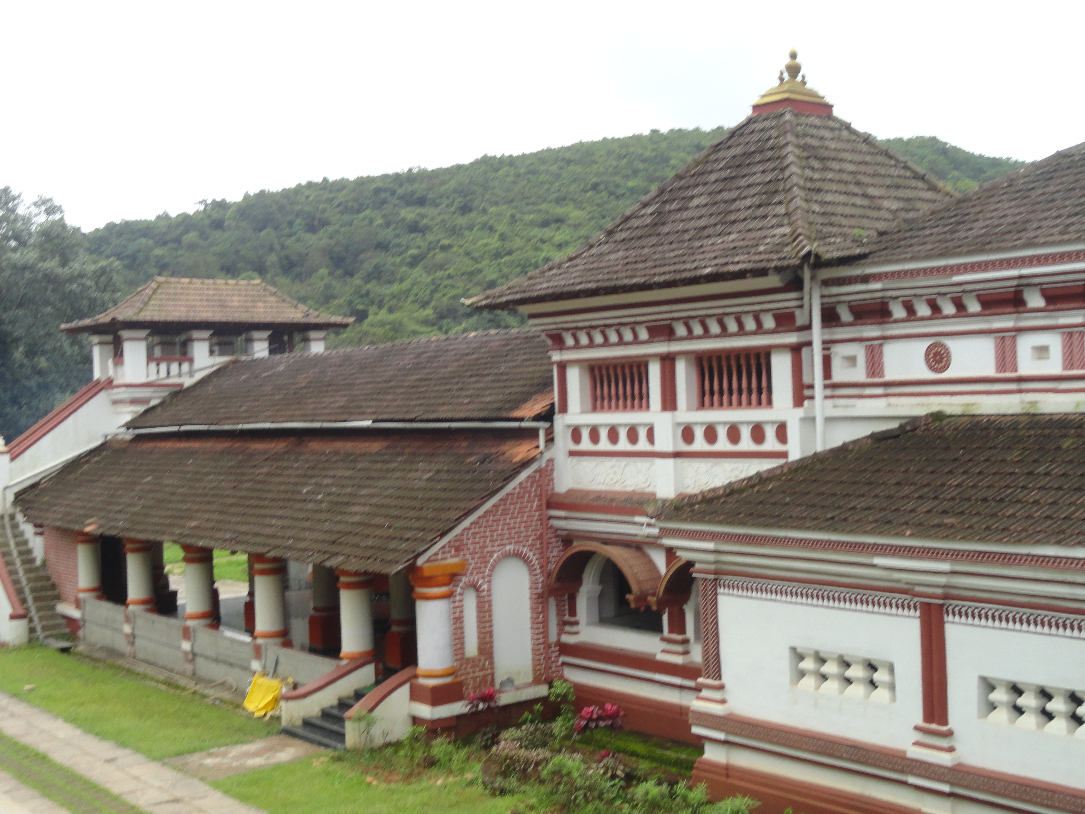 Temple at Keri - Ponda - Goa - India